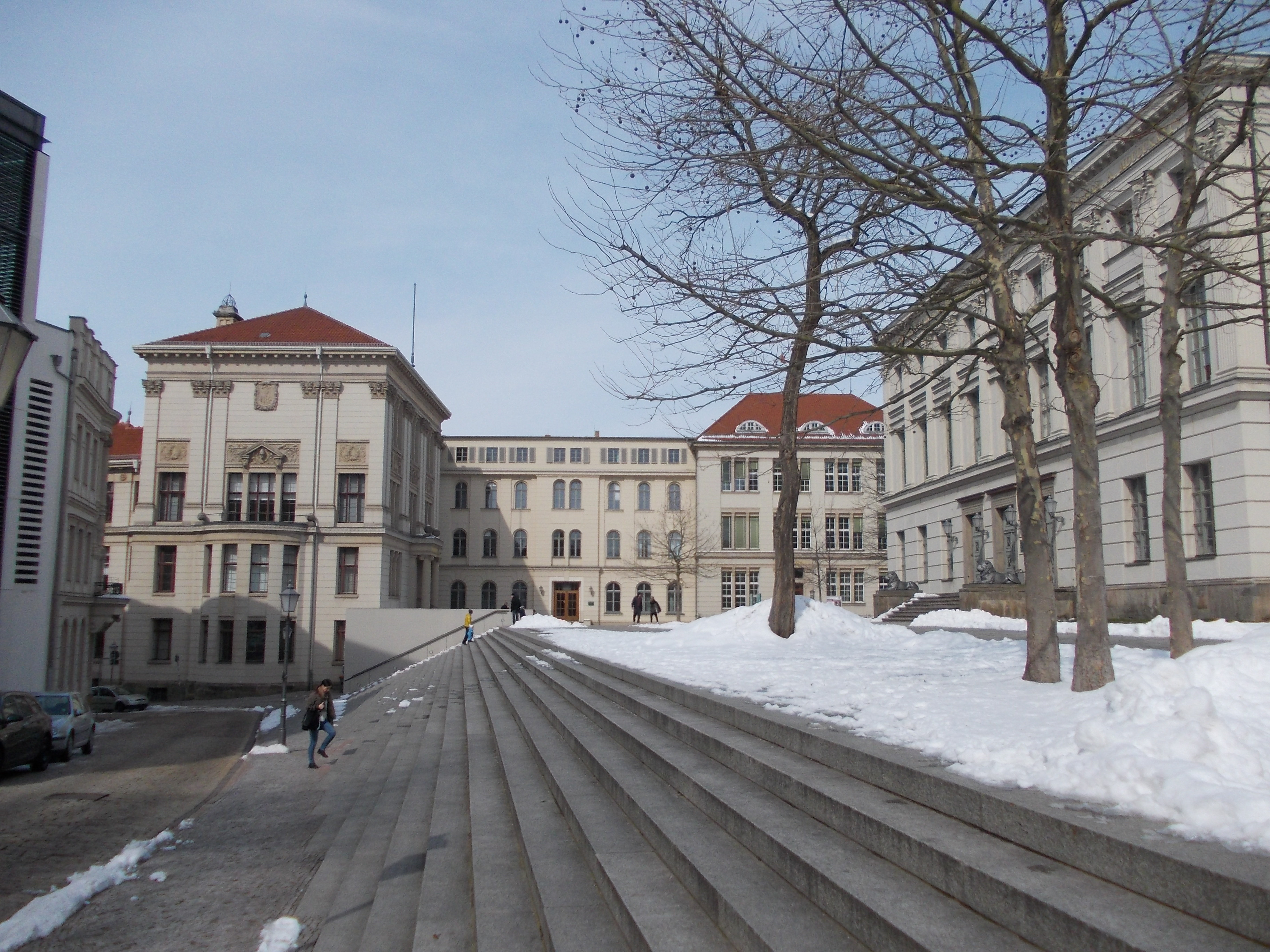 Universitätsplatz in Halle (Saale)